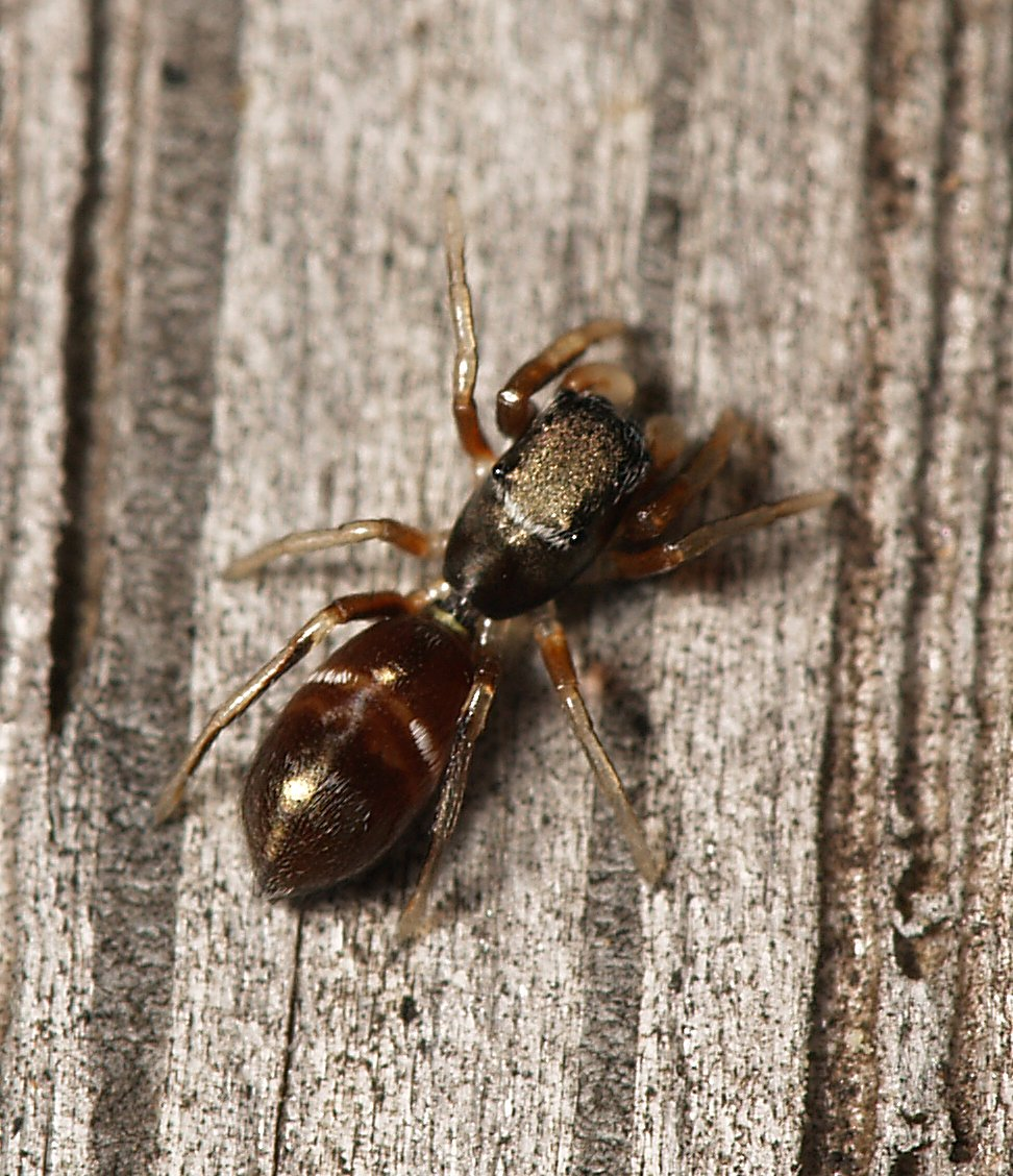 Synageles venator from a garden in Heupelzen, Germany.